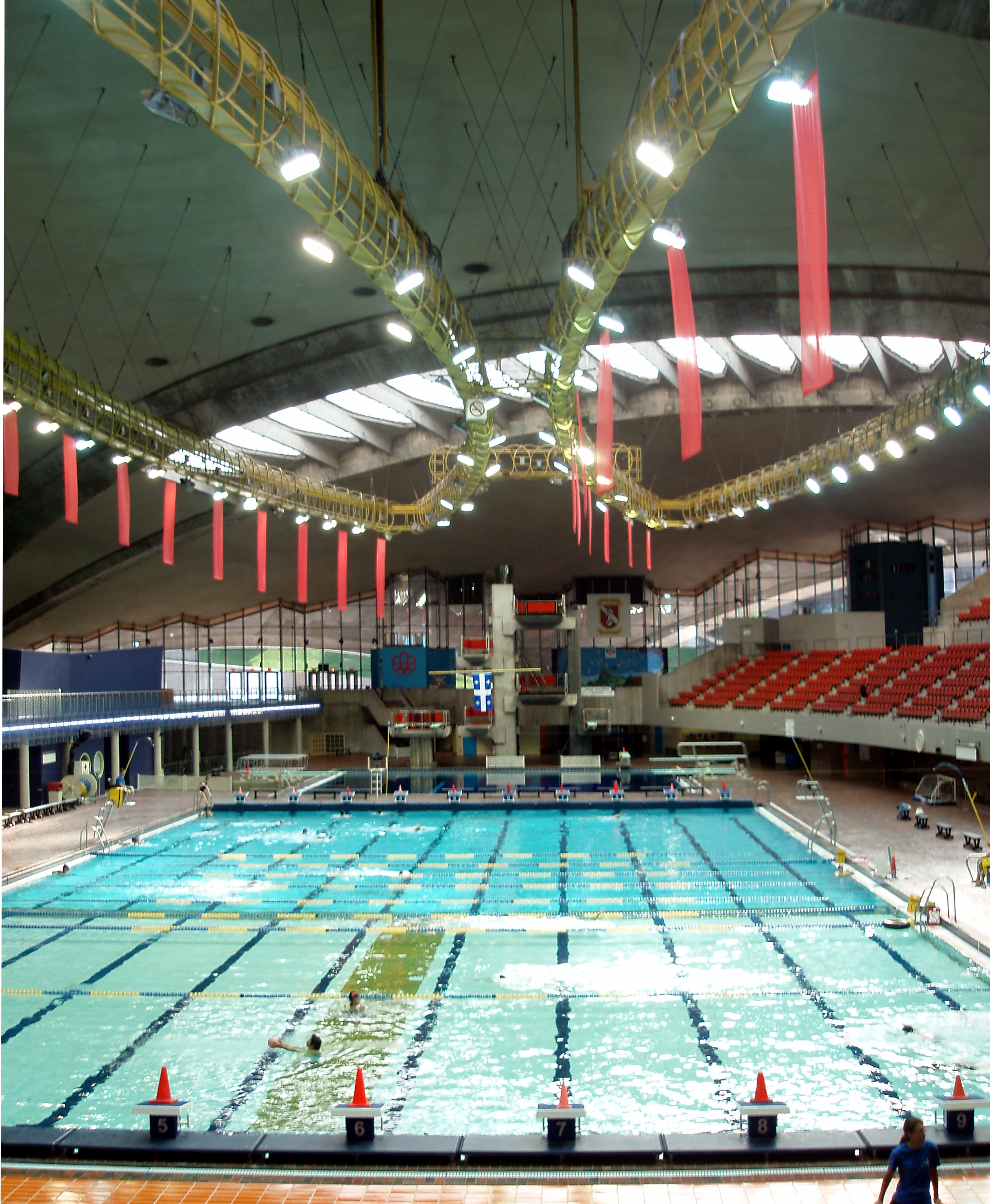 Photograph of Olympic Swimming Pool in Olympic Stadium, Montreal, Quebec. At end of pool is diving tower.